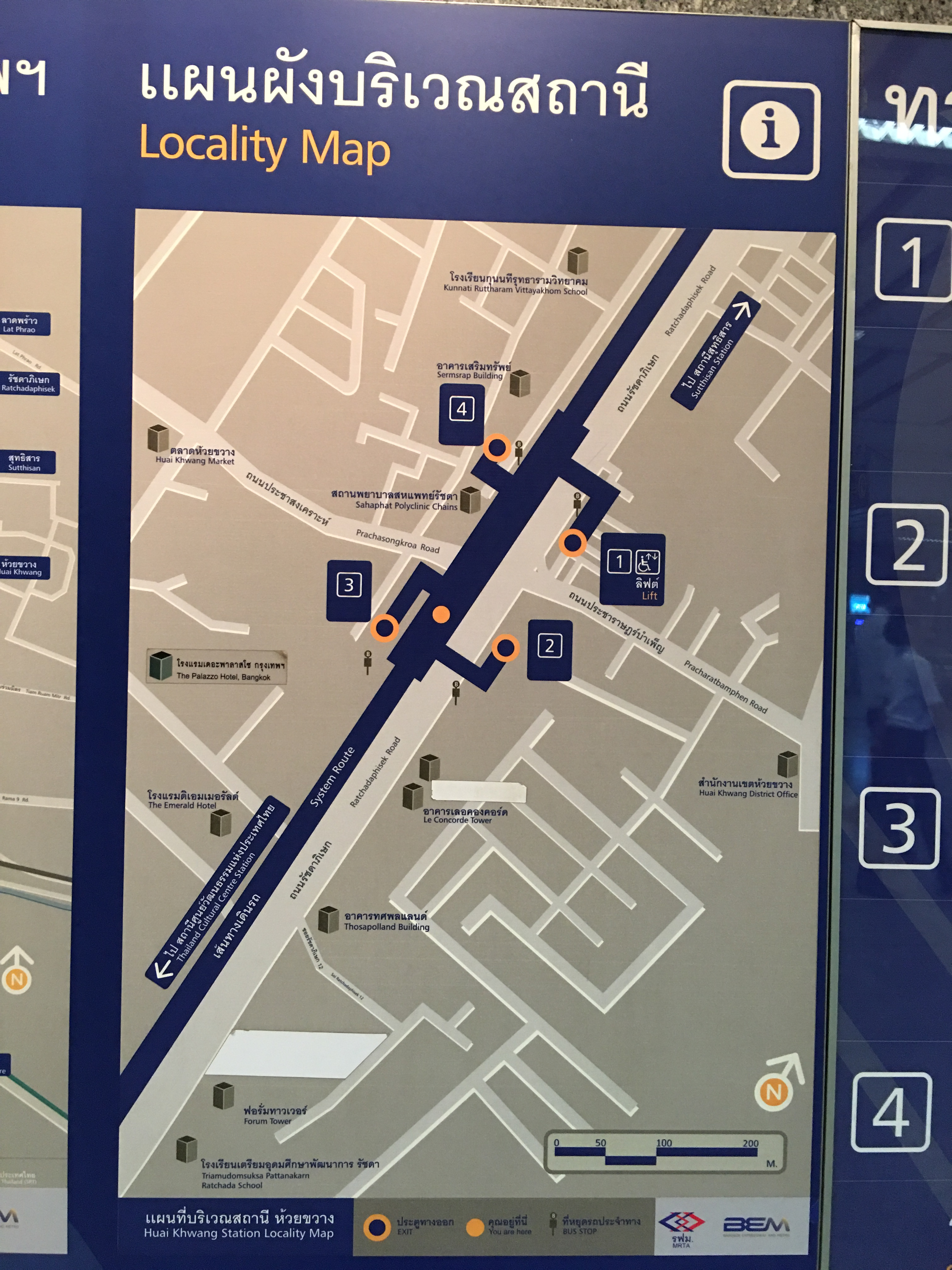 The locality map of Huai Khwang Station